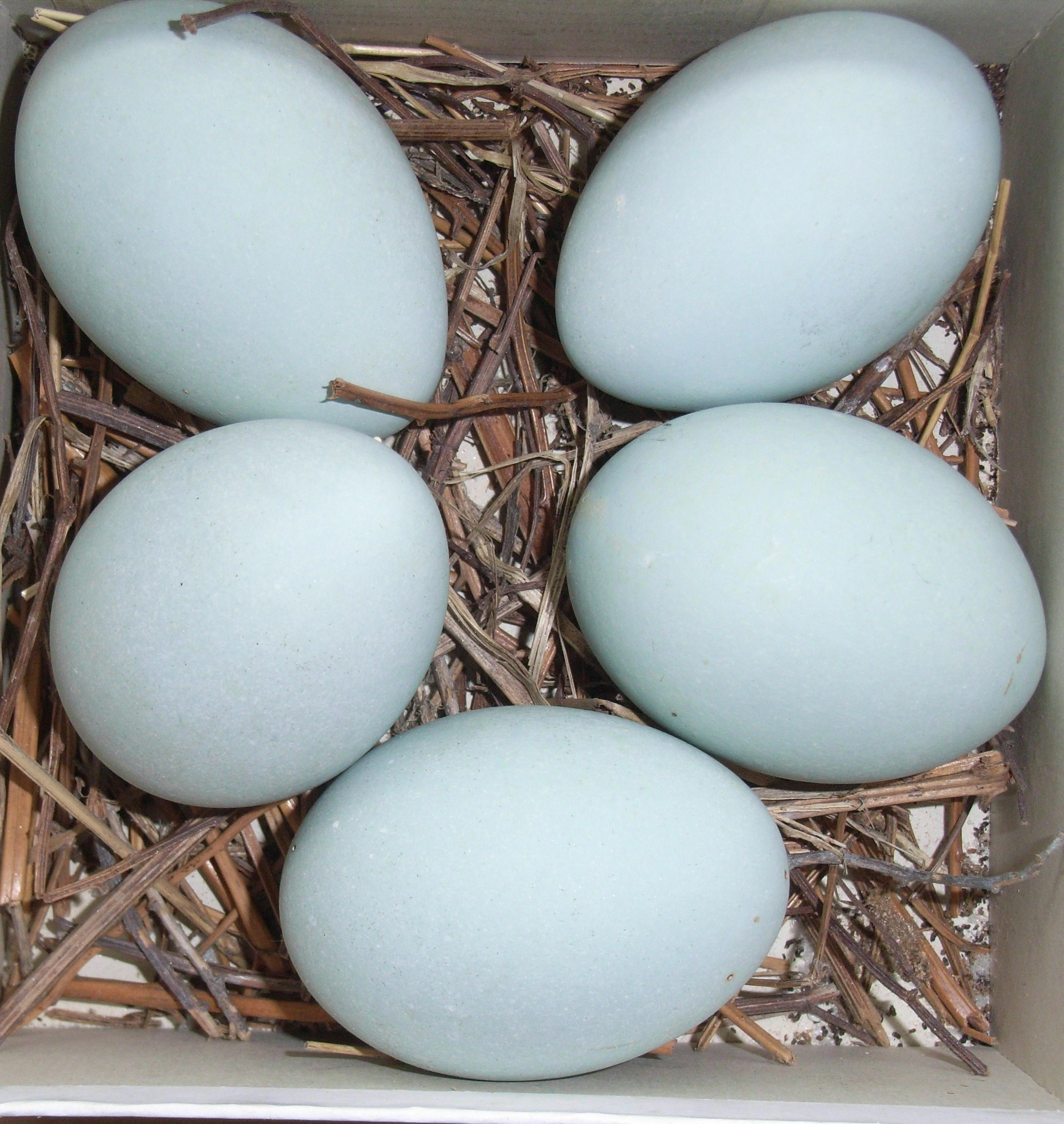 Ardea cinerea eggs